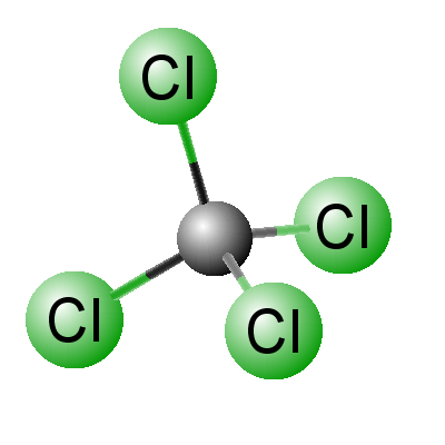 Formula of carbon tetrachloride